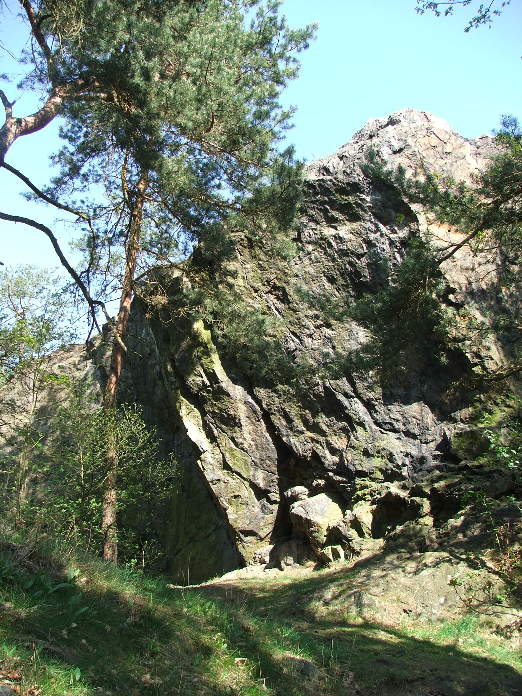 Rock Redstone